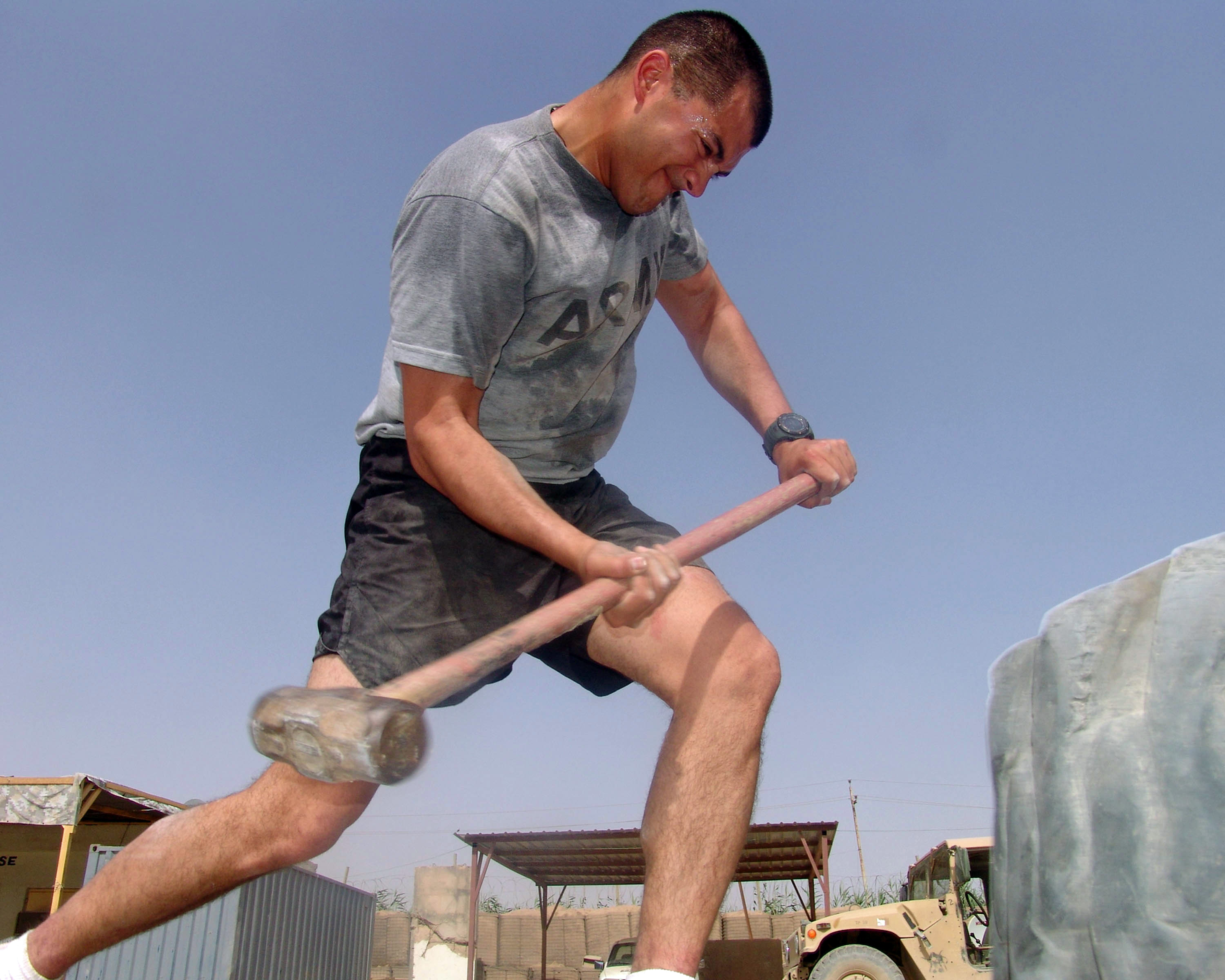 Army 1st Lt. Jason Hobson strikes a 300-pound tire with a sledgehammer as part of a 20-minute Tabata cross-fitness training program at Forward Operating Base Mahmudiyah, Iraq, May 17, 2009. (U.S. Army photo by Sgt. Robert Jordan, Army 1st Lt. Jason Hobson strikes a 300-pound tire with a sledgehammer as part of a 20-minute Tabata cross-fitness training program at Forward Operating Base Mahmudiyah, Iraq, May 17, 2009. (U.S. Army photo by Sgt. Robert Jordan, North Carolina National Guard)